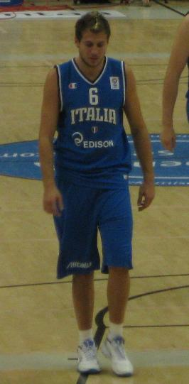 Stefano Mancinelli in 2010